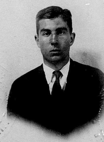 Percy Rivington Pyne Jr. circa 1919 from his 1919 passport application